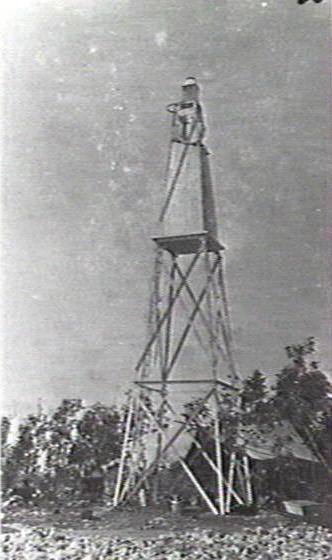 Emery Point Light. Old structure dismantled May 1915.